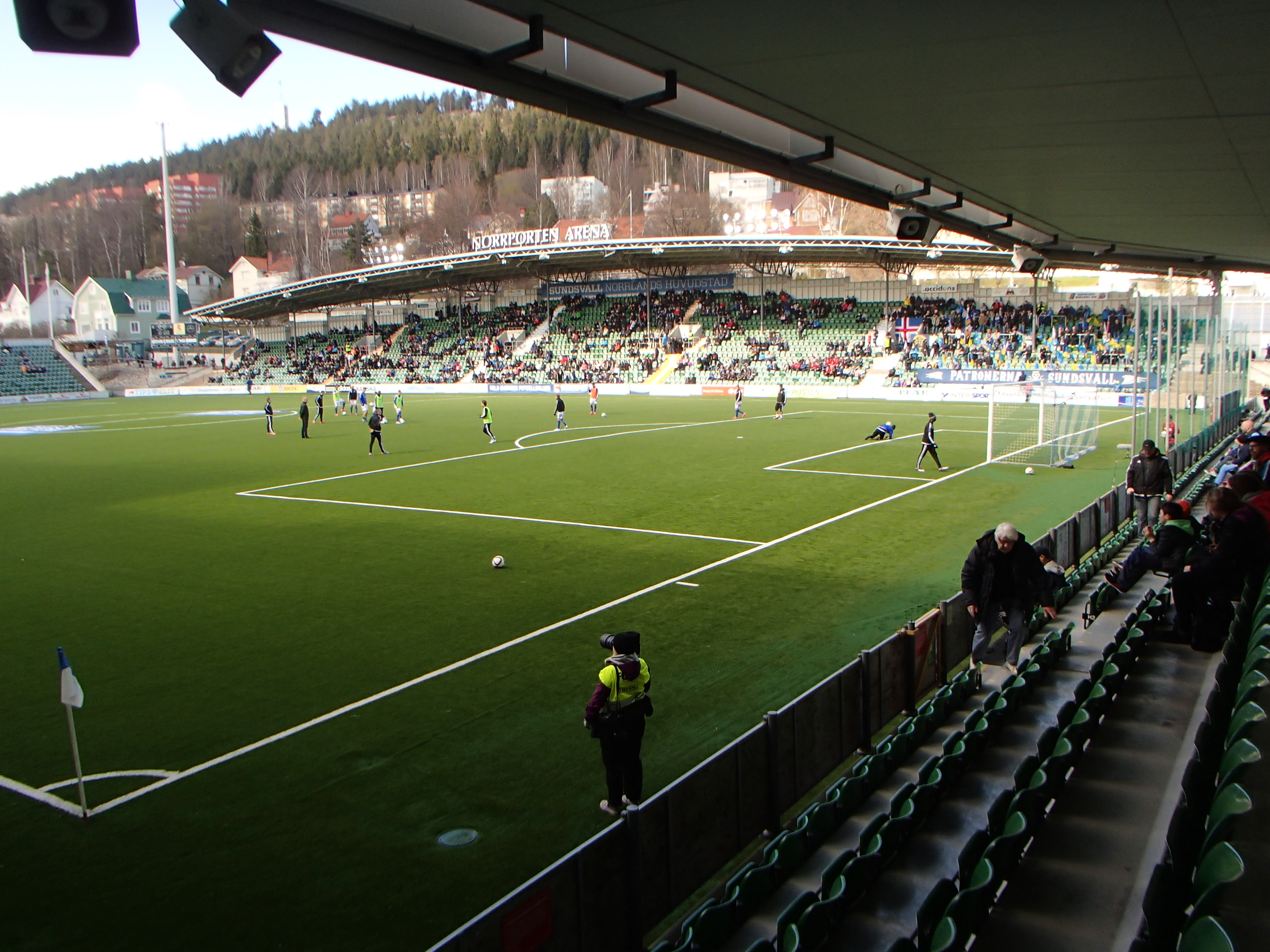 Game night at the football venue of "Norrporten Arena" at Universitetsallén 2-8 in Sundsvall.